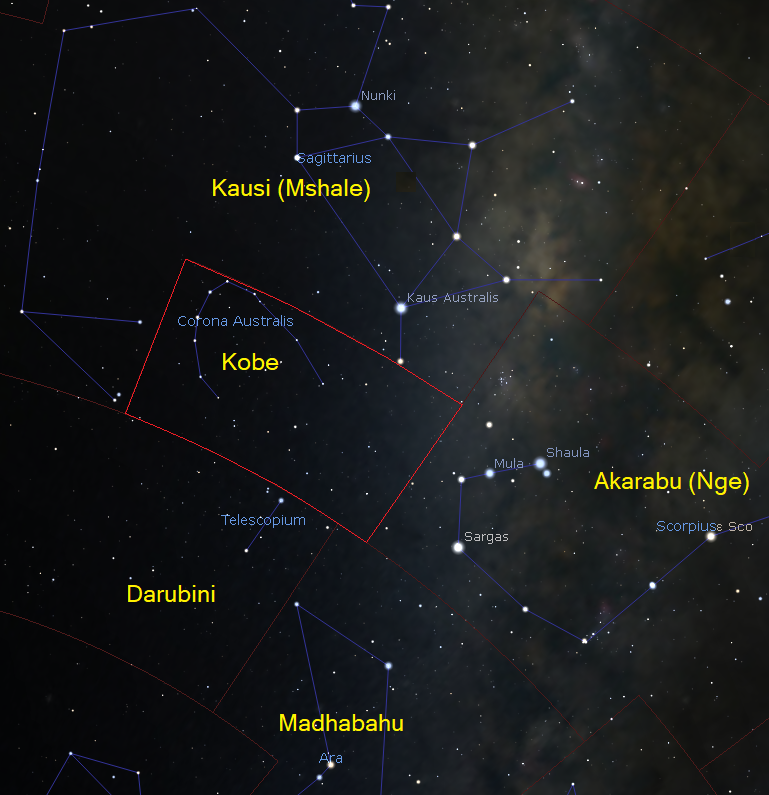 Constellation Corona Australis as seen from Tanzania, Swahili labelled Kiswahili: Kiswahili: Kundinyota Kobe (Corona Australis) jinsi inavyoonekana kutoka Tanzania, majina kwa Kiswahili